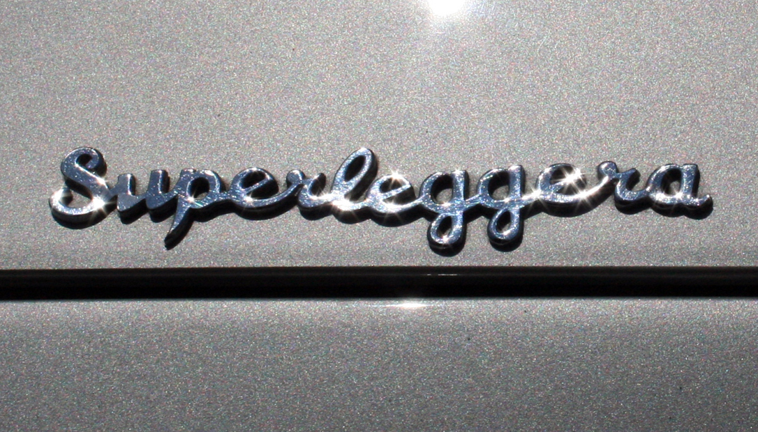 The Superleggera logo on an Aston Martin DB5.